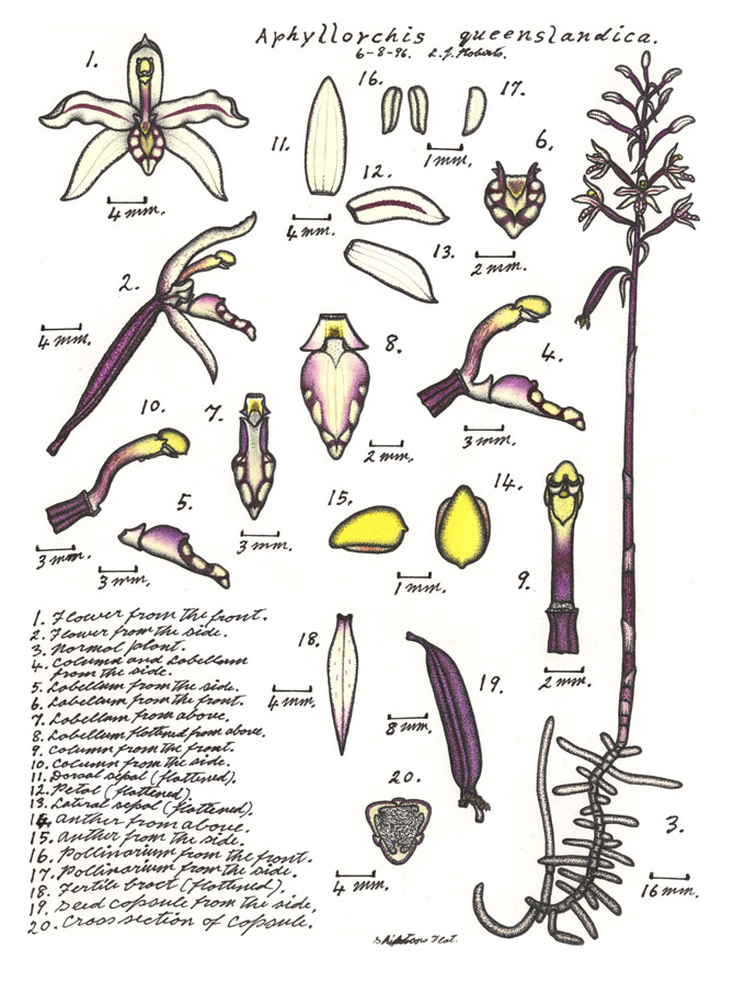 Scan of botanical illustration by Lewis Roberts